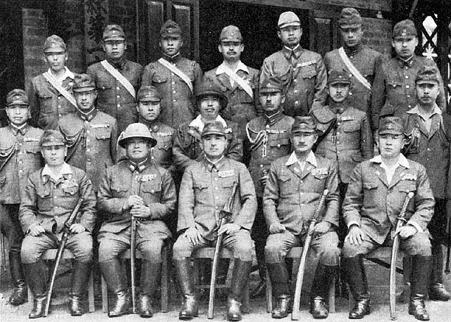 Commanders and staff of the 15th Imperial Japanese Army. Seen left to right, front row, are Lt. Gen. Genzo Yanagida, Commander, 33d Division, General Tanaka, Commander, 18th Division, General Mutaguchi, Commander, Fifteenth Army, Lt. Gen. Sukezo Matsuyama, Commander, 56th Division, and Lt. Gen. Kotoku Sato, Commander, 31st Division.